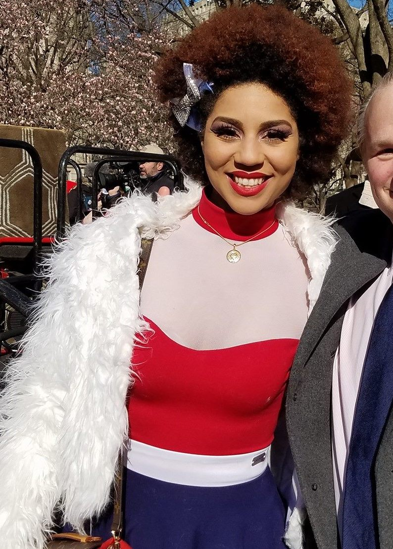 National Tea Party co-founder and leader Michael Johns, a former White House speechwriter and Heritage Foundation policy analyst, with singer/songwriter Joy Villa, "Spirit of America" rally in support of President Trump, Lafayette Square, Washington, D.C., March 4, 2017